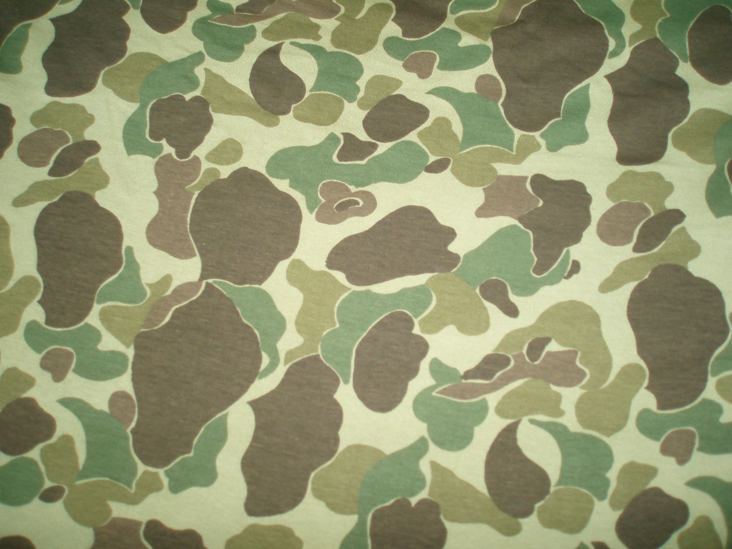 duckhunter camo texture